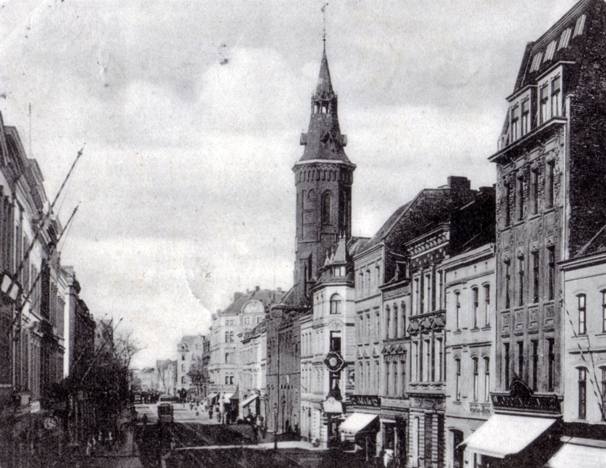 Townhall of Ehrenfeld, Cologne